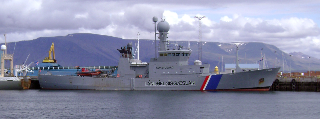 Iceland coast guard 2